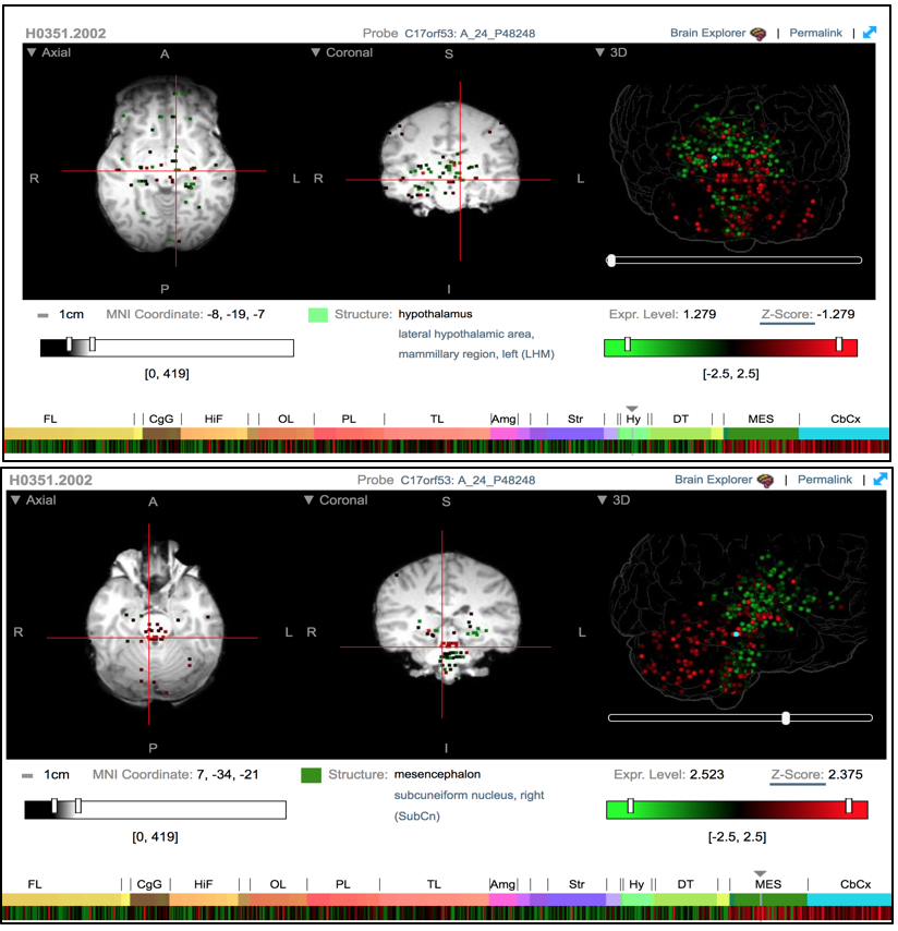 this is the in situ hybridization data of C17orf53